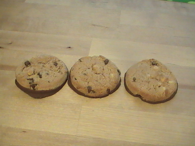 Bergen Cookies Choco-cookies in straight line. They are famous cookies manufactured by Polish cookie manufacturer named Spomet.